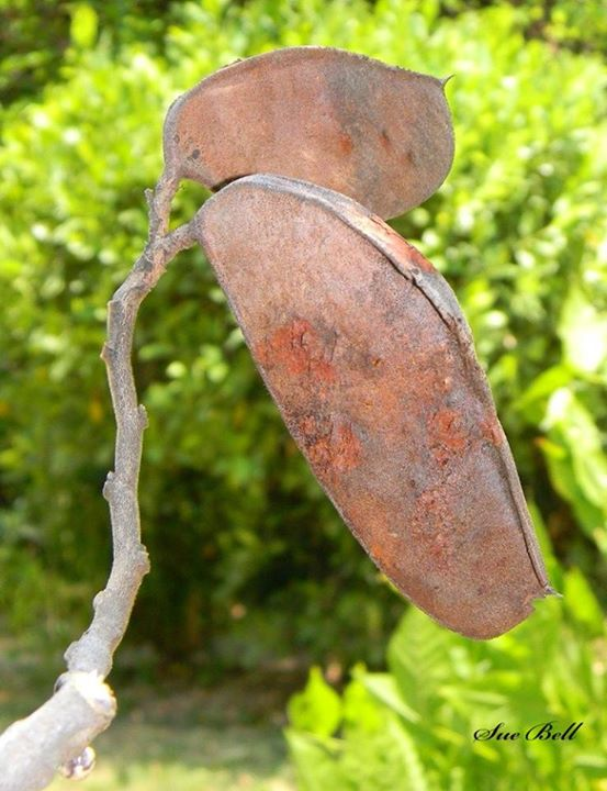 Pods of Brachystegia boehmii growing in Harare, Zimbabwe